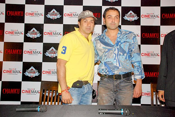 Sunny Deol and Bobby Deol visit Cinemax theatre at Eternity Mall Thane to promote Chamku